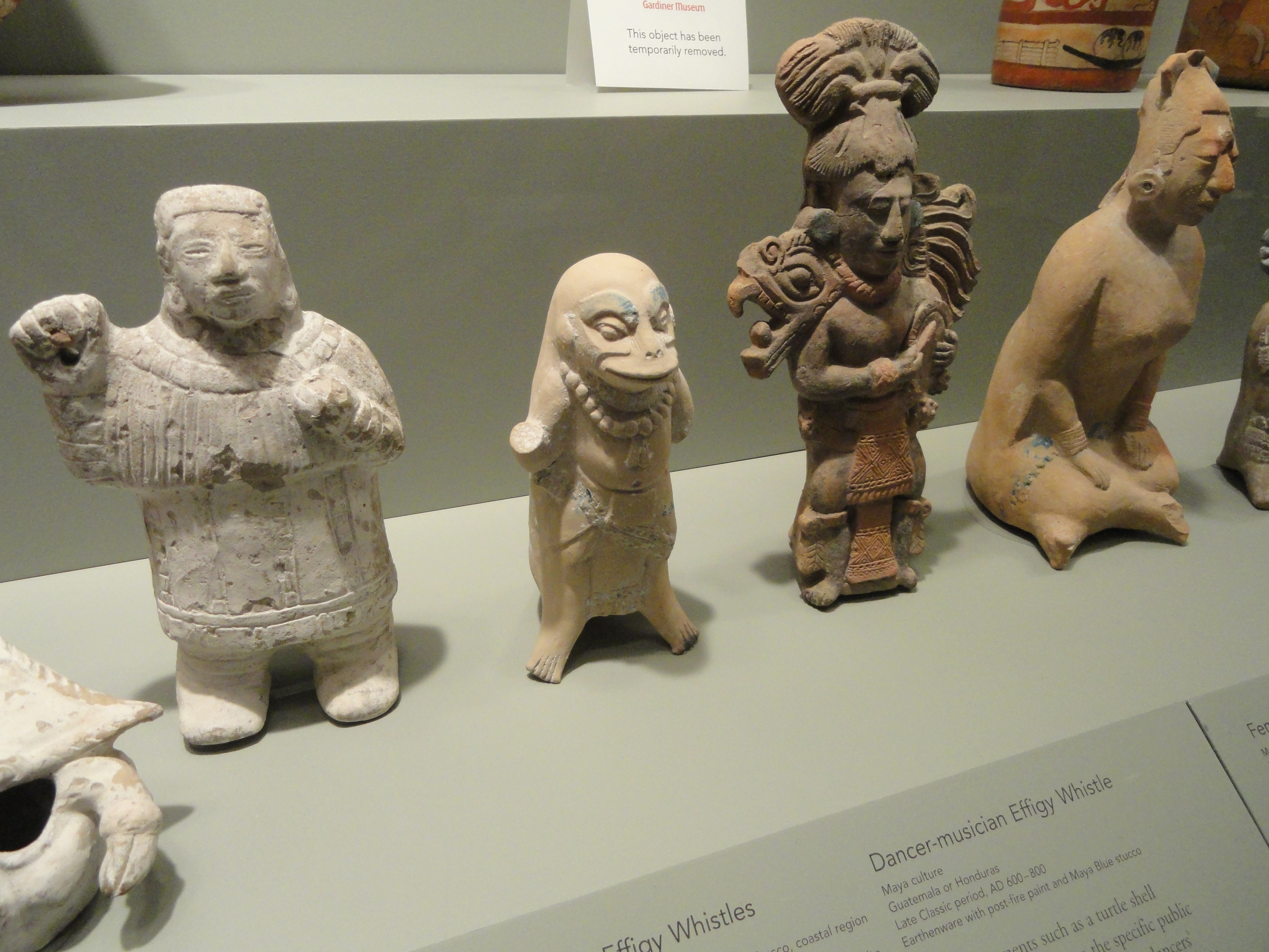 Exhibit in the Gardiner Museum, Toronto, Ontario, Canada. This artwork is in the public domain because the artist died more than 70 years ago.